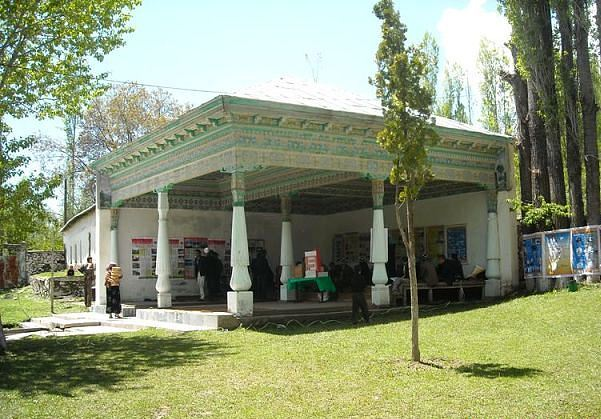 Chashmai Elok